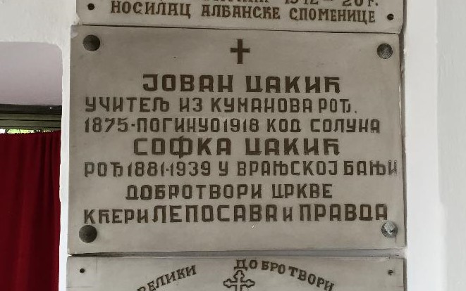 спомен плоча Јована и Софије Цакић са кћерима, добротвори цркве св. Илије у Врањској Бањи